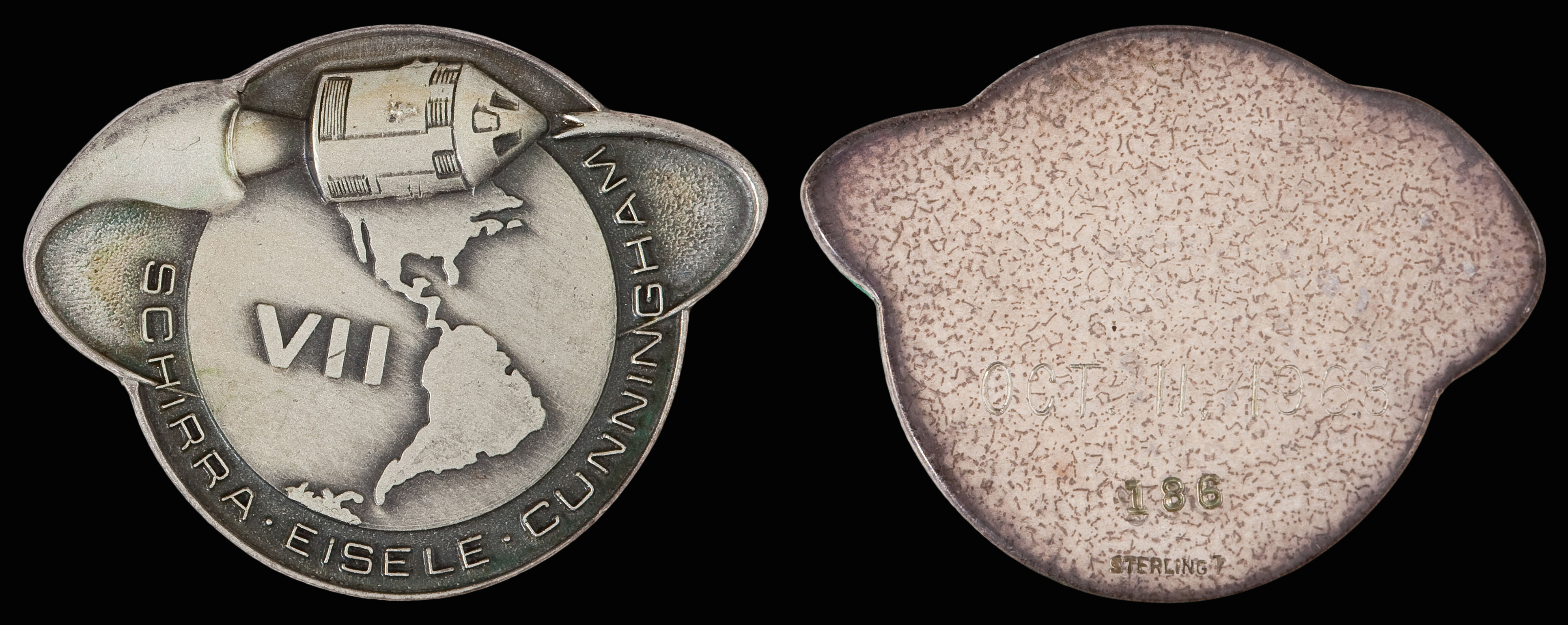 Apollo 7 (S68-26668, June 1968) Flown Robbins Medallion (SN-186) from the collection of Rusty Schweickart(6075-40034)